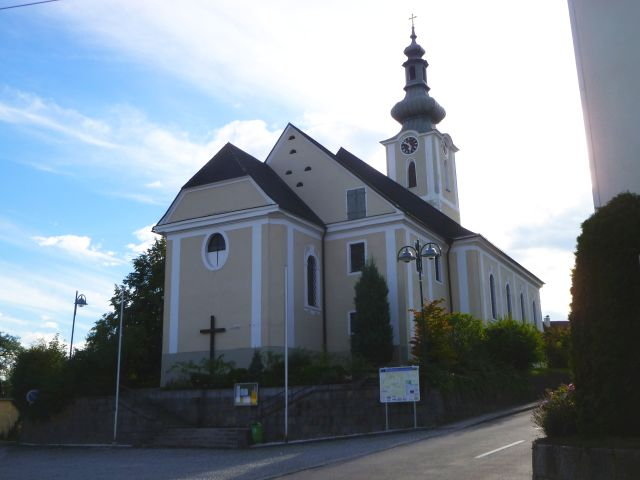 Kath. Pfarrkirche hl. Martin